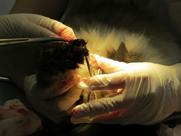 Onychectomy,amputation of the distal phalanges